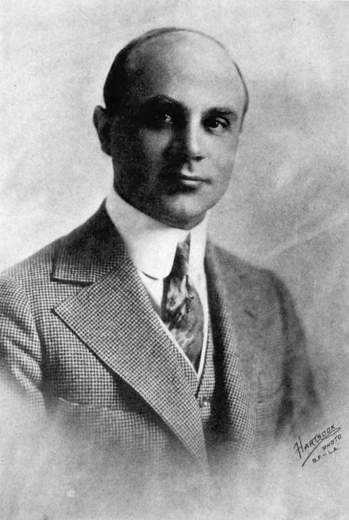 Portrait of American film director Oscar C. Apfel.